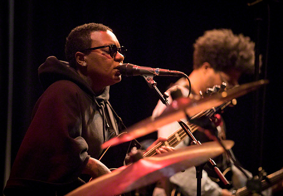 MeShell NdegeòCello at the main stage of Cosmopolite. The concert took place on 08. October 2016 in Oslo.Lineup: MeShell NdegeòCello (bass and vocal), Chris Bruce (guitar), Jebin Bruni (keyboard), Abraham Rounds (drums)